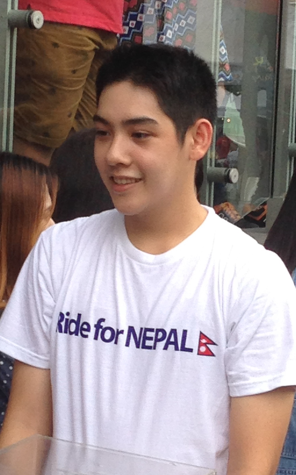 Best Vichayut at CTW.